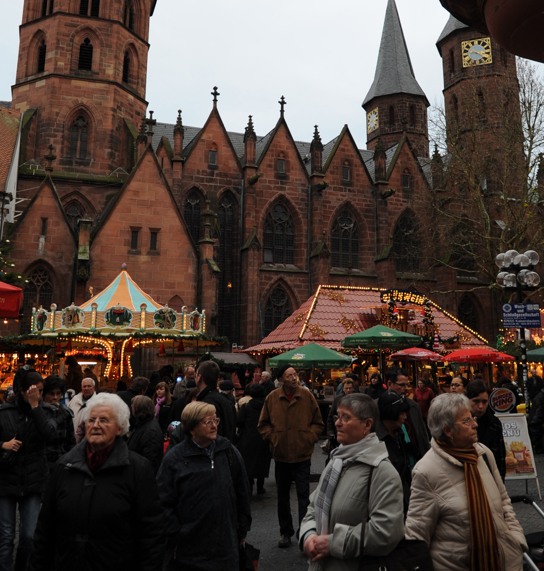 German civilians and Kaiserslautern Military Community Members come out to enjoy the annual 27th Pre-Christmas Crafts Market in Kaiserslautern, Germany, Dec. 3, 2009. This annual event hosted by the German-American Community Office brings communities together during the holidays and will be in place through Dec. 22, 2009. (U.S. Air Force photo by Airman 1st Class Caleb Pierce)